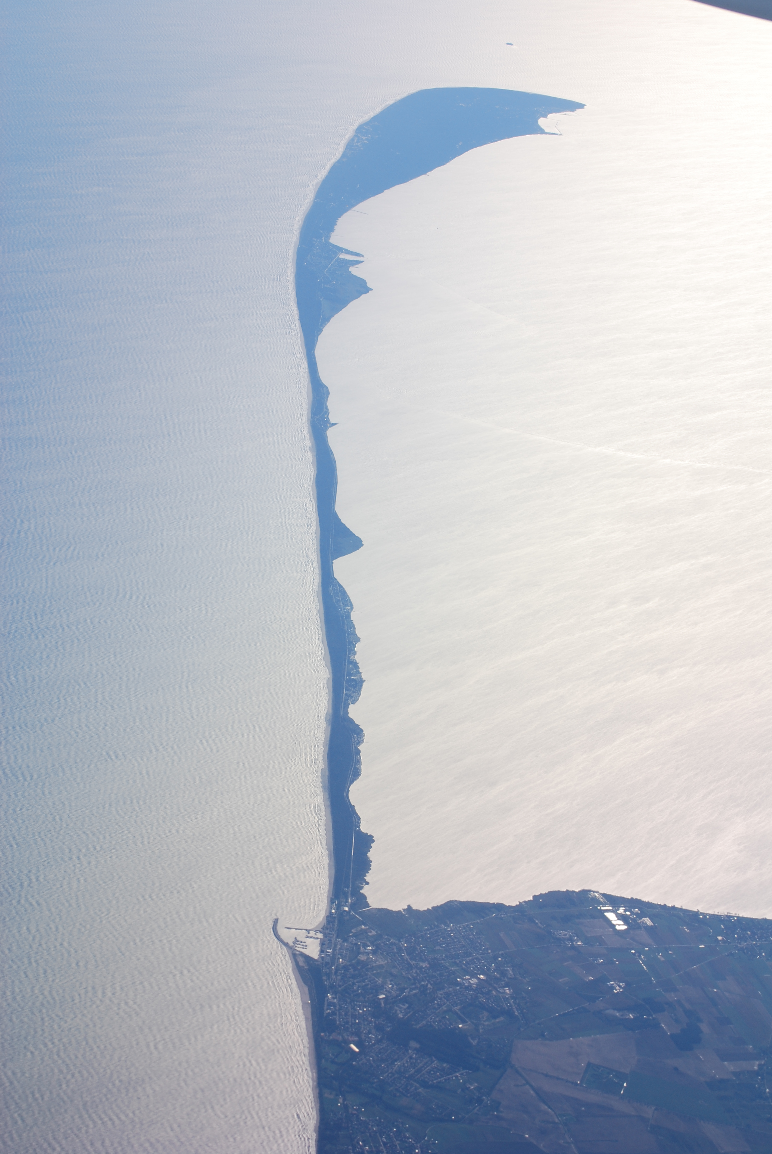 Hel Peninsula